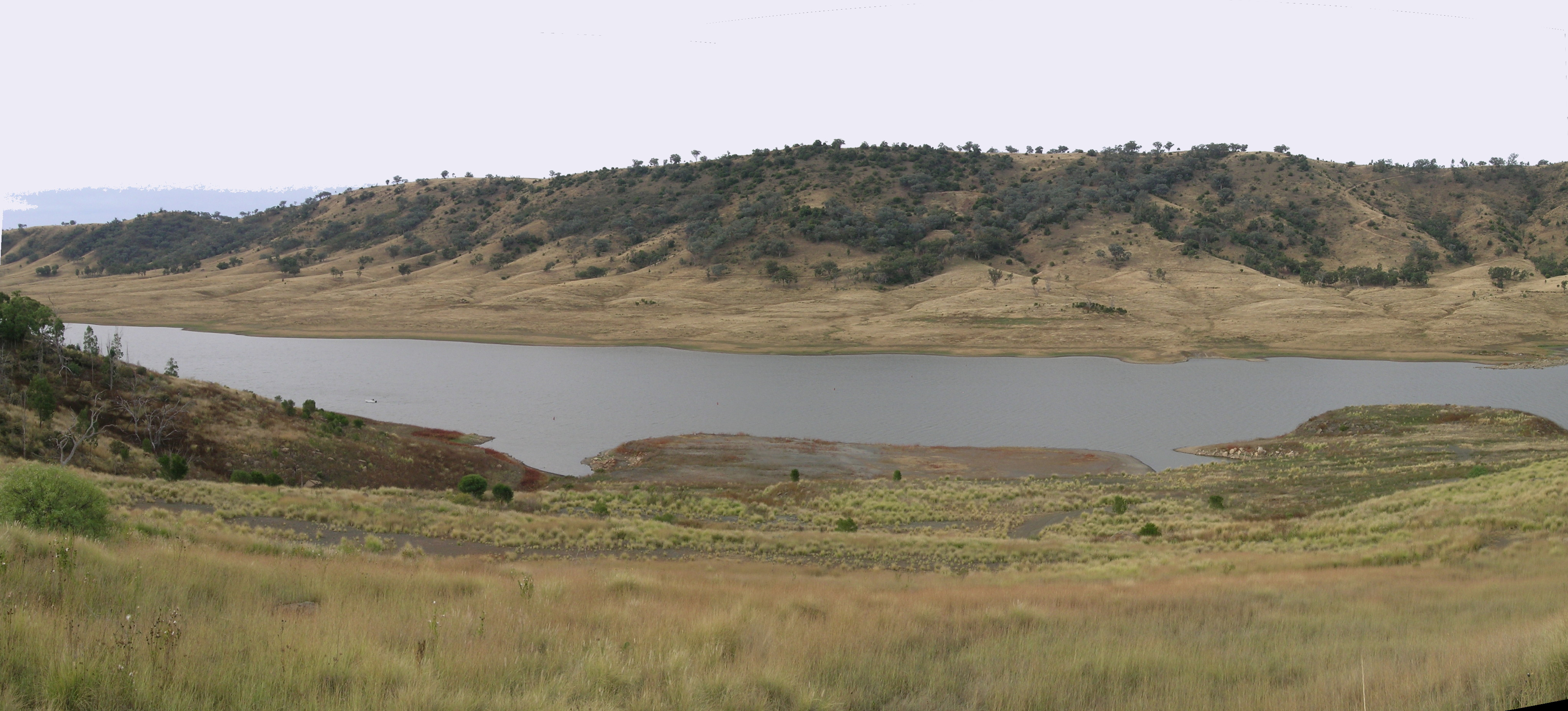 The Split Rock Dam, Manilla, at 2.8% of its capacity.